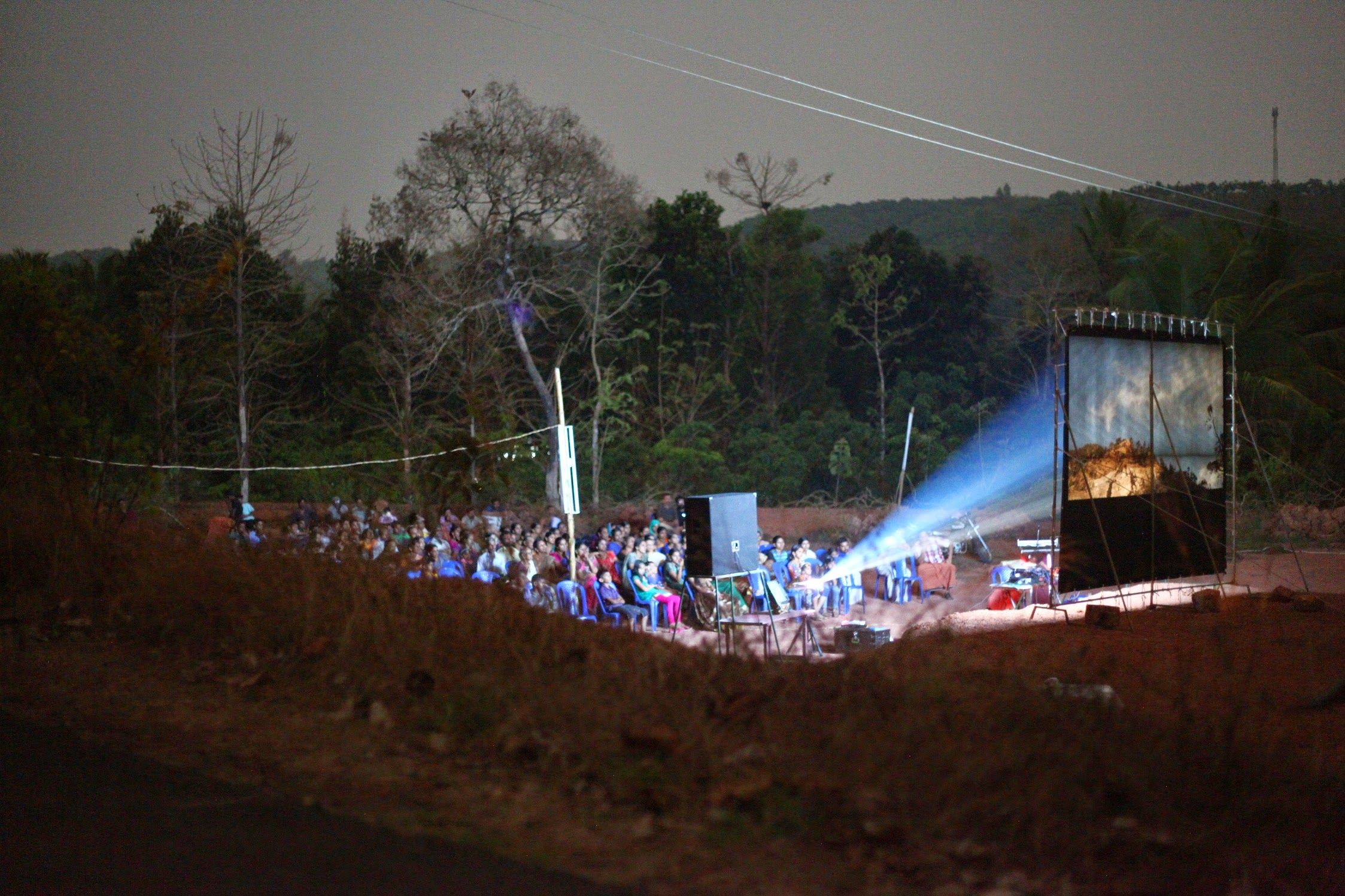 Cinema Vandi Screening 2015